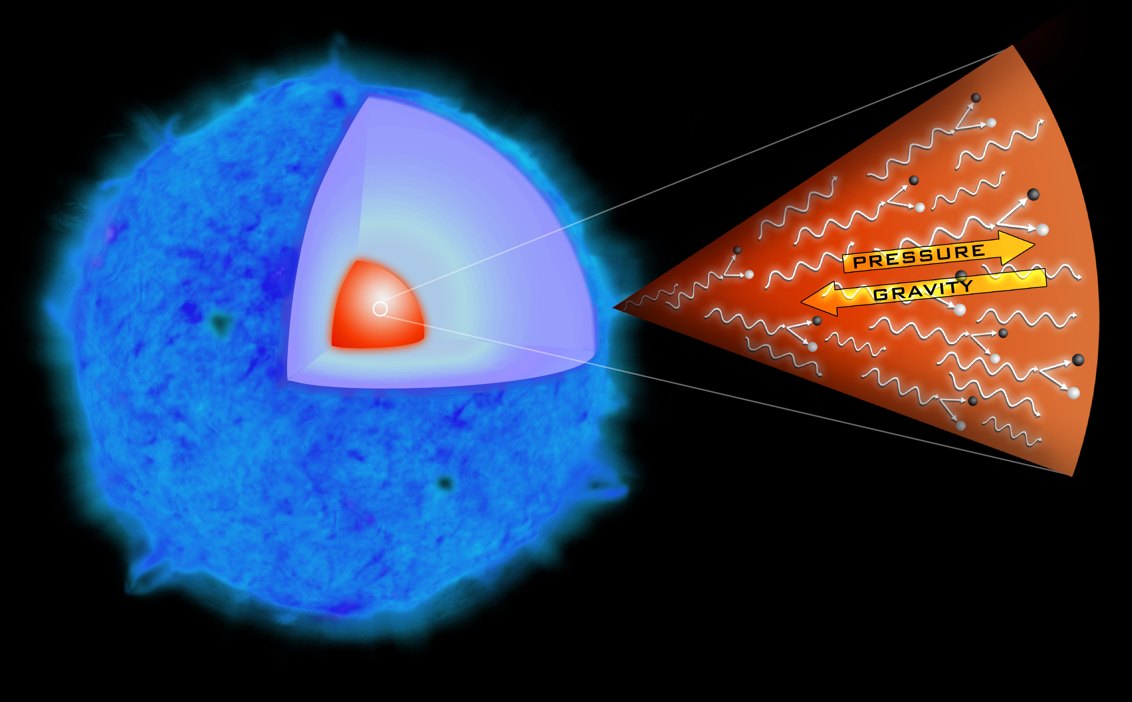 Original caption: "This illustration explains the process that astronomers think triggered the explosion in SN 2006gy. When a star is very massive, its core can produce so much gamma-ray light that some of the energy from the radiation is converted into particle and anti-particle pairs. The resulting drop in energy causes the star to collapse under its own huge gravity. After this violent collapse, runaway thermonuclear reactions (not shown here) ensue and the star explodes, spewing the remains into space."